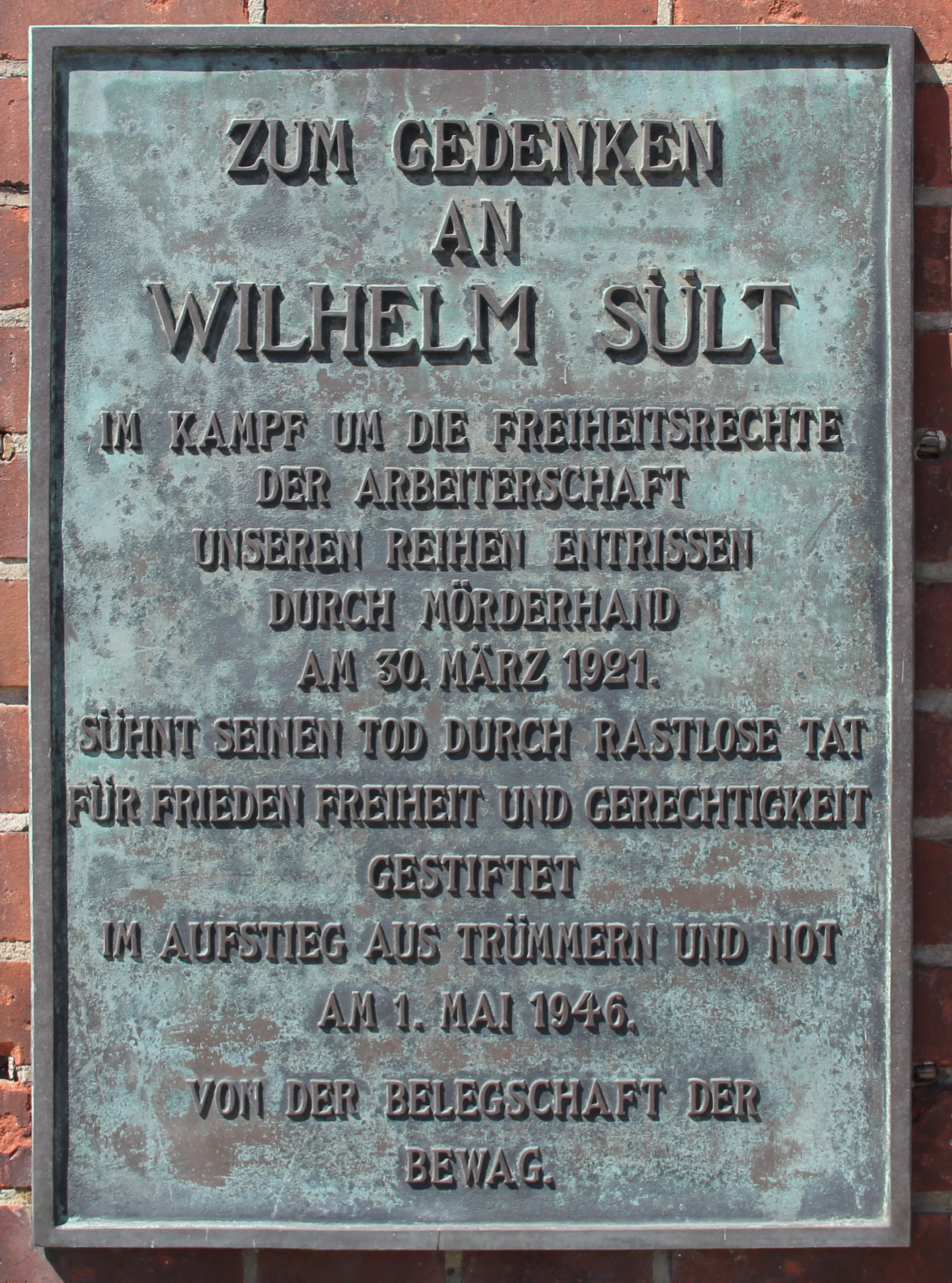 Memorial plaque, Wilhelm Sült, Rummelsburger Landstr 2, Berlin-Oberschöneweide, Germany